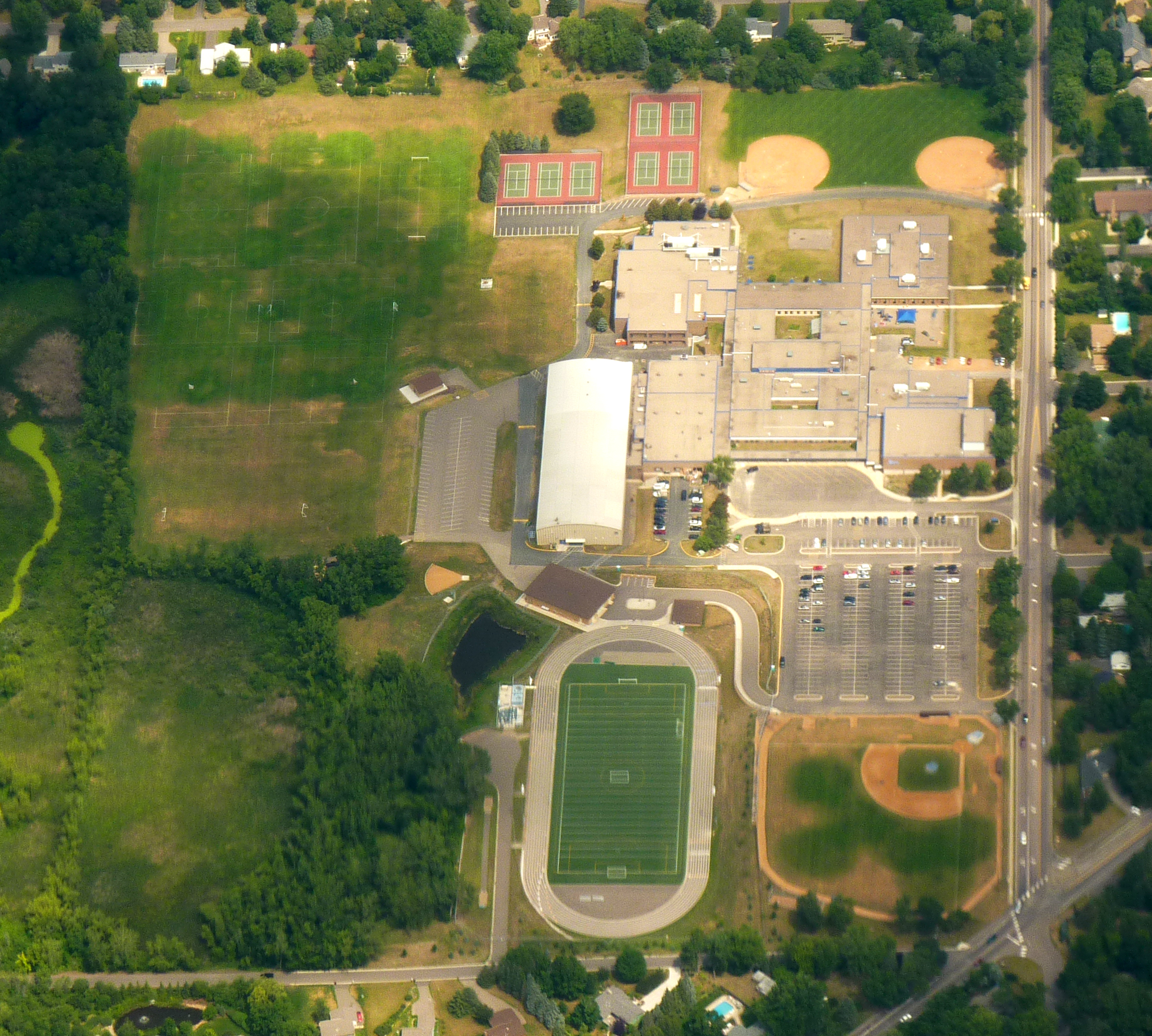 Aerial photo of Wayzata Central Middle School, Plymouth, Minnesota, USA.